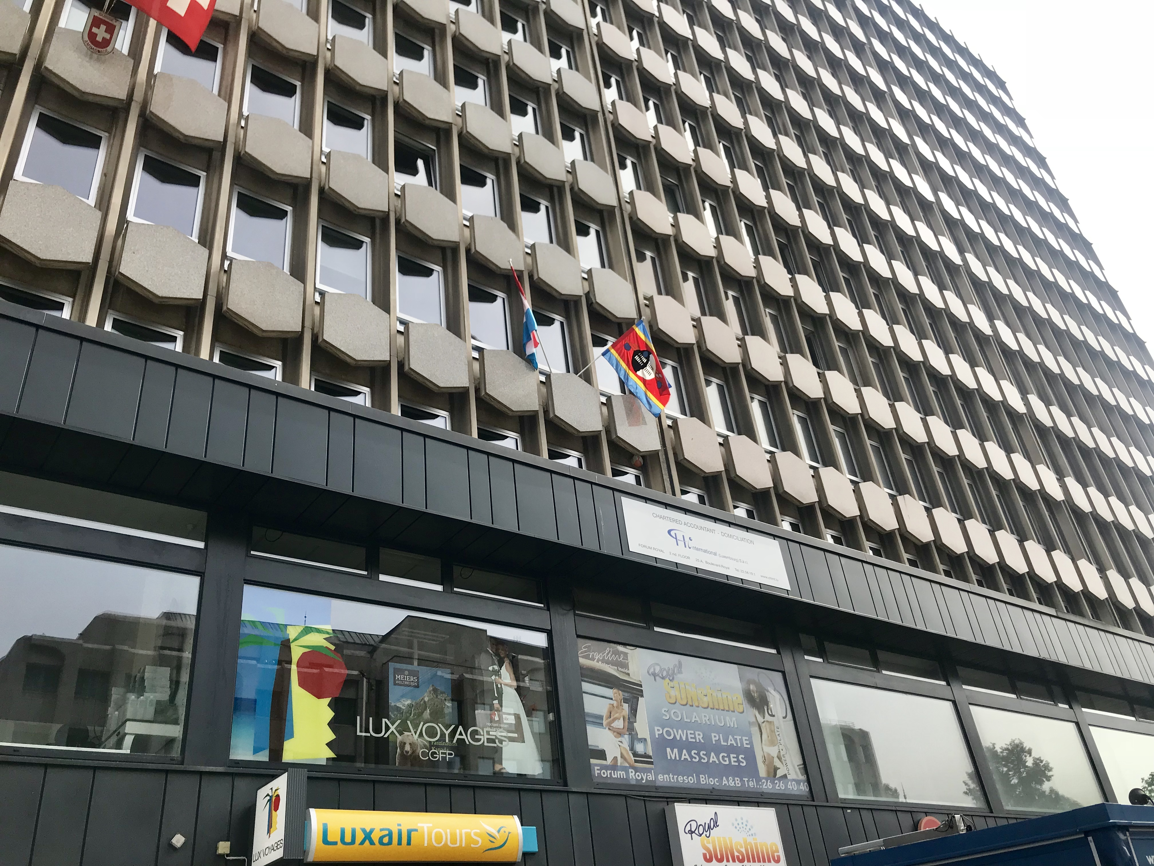 Consulate of Eswatini in Luxembourg-City (Luxembourg), sharing the same building as the Swiss embassy.